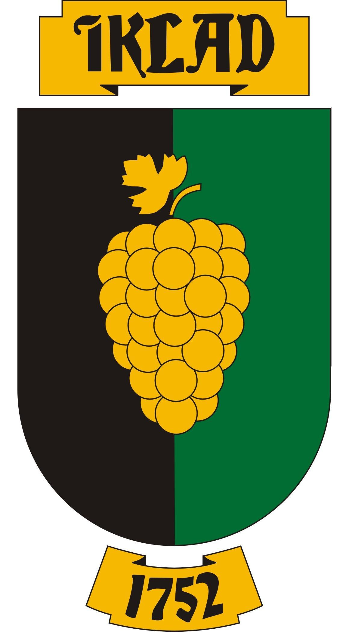 Coat of arms of Iklad, Hungary